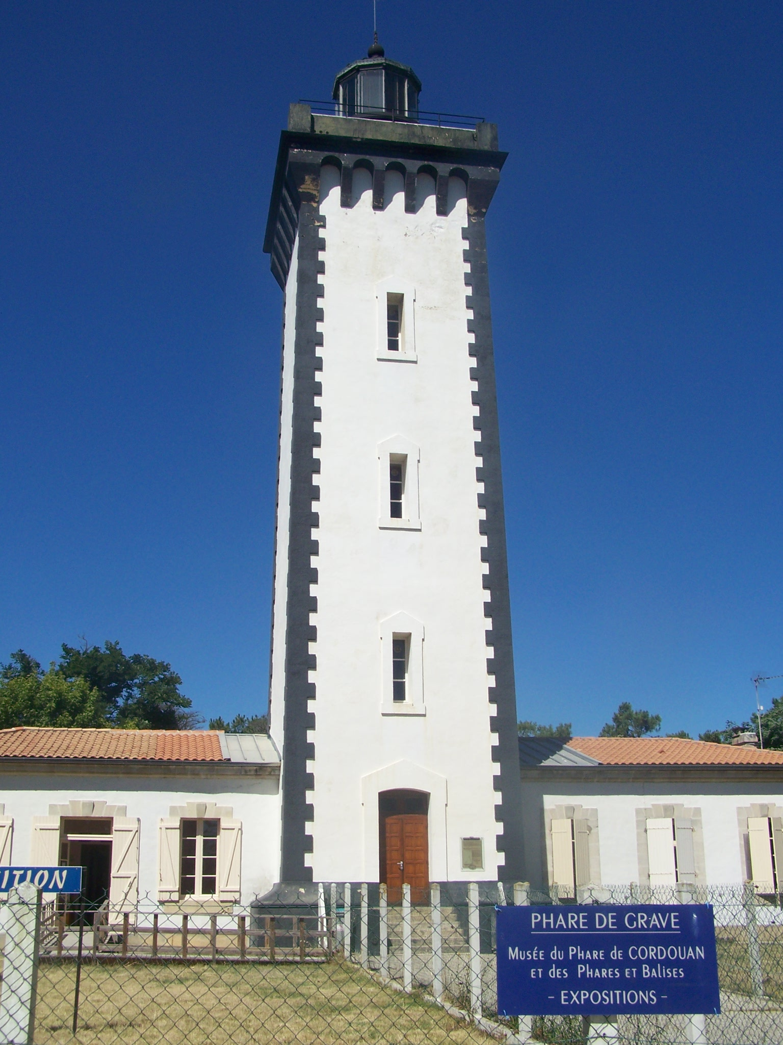 The Phare de Grave lighthouse and its museums, at the Pointe de Grave peninsula, in Gironde, France.